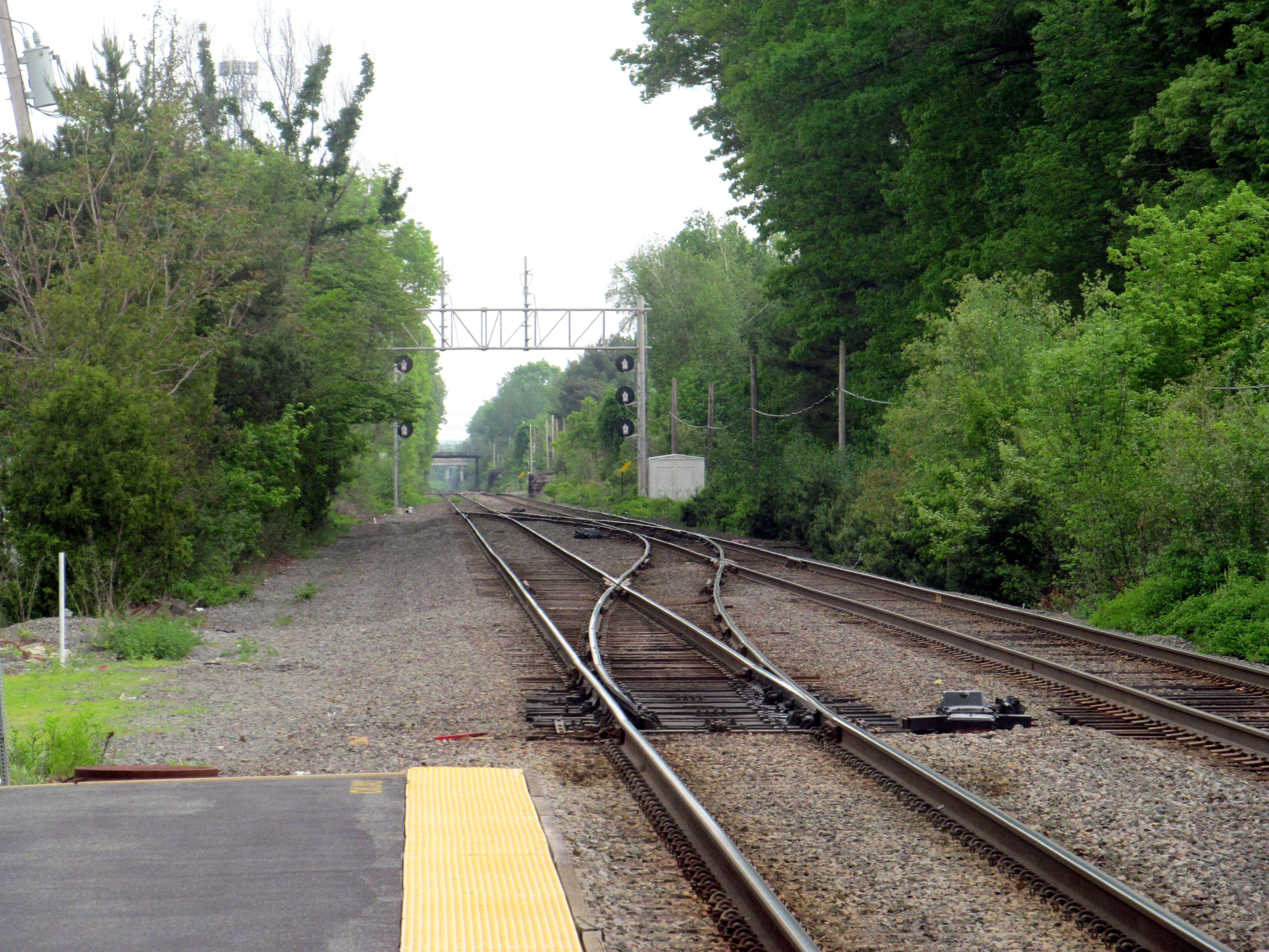 Interlocking south of Wilmington station in May 2016. This interlocking allows southbound trains from the Wildcat Branch to reach the southbound main, as well as serving as a general purpose crossover.